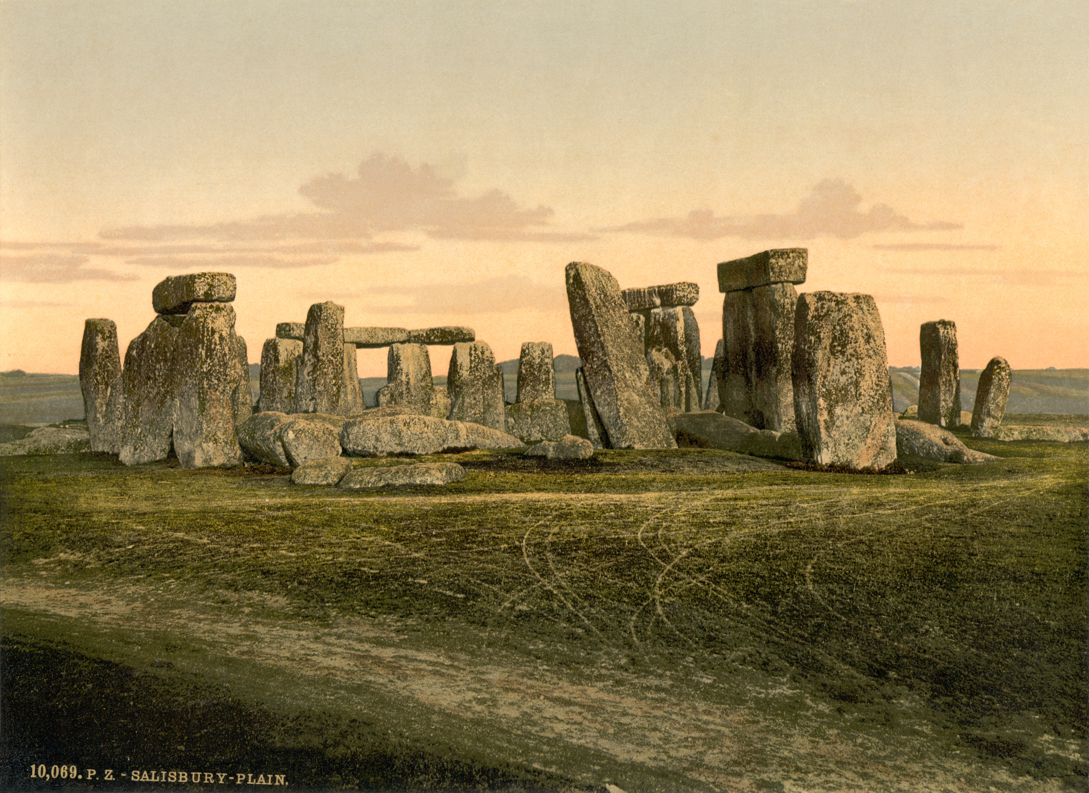 10069 P.Z. Salisbury-Plain. Photochrom print by Photoglob Zürich, between 1890 and 1900. From the Photochrom Prints Collection at the Library of Congress More photochroms from England | More photochrom prints [PD] This picture is in the public domain